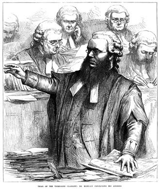 Edward Vaughan Hyde Kenealy at the Tichborne Case